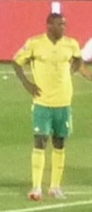 Aaron Mokoena during the game between South Africa and Uruguay at FIFA World Cup 2010, 16 June 2010, Loftus Versfeld Stadium, Pretoria